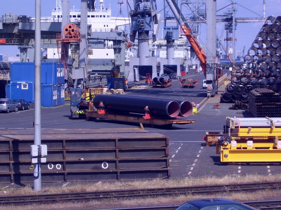 Break bulk terminal in the "Neustädter Hafen" of Bremen.